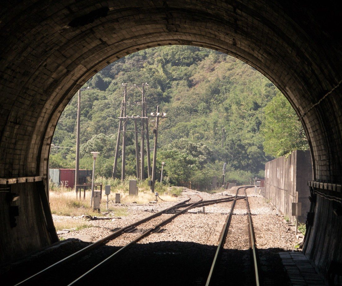 Looking along the track of the South-Link Line from the Central Tunnel under the Chaliufan Mountain towards the Central Signal Staion( a.k.a signal post ).